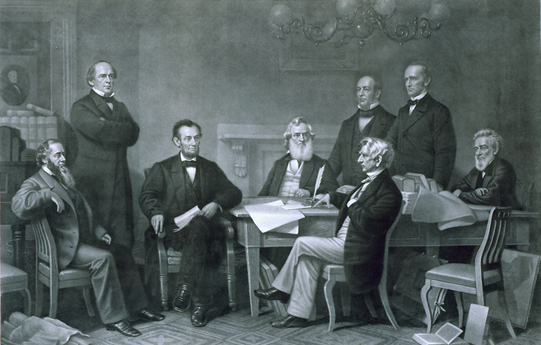 The First Reading of the Emancipation Proclamation before the Cabinet.